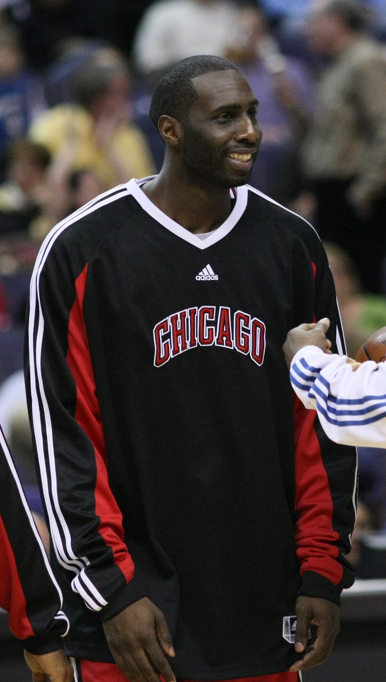 Tim Thomas playing with the Chicago Bulls during a February 2009 game